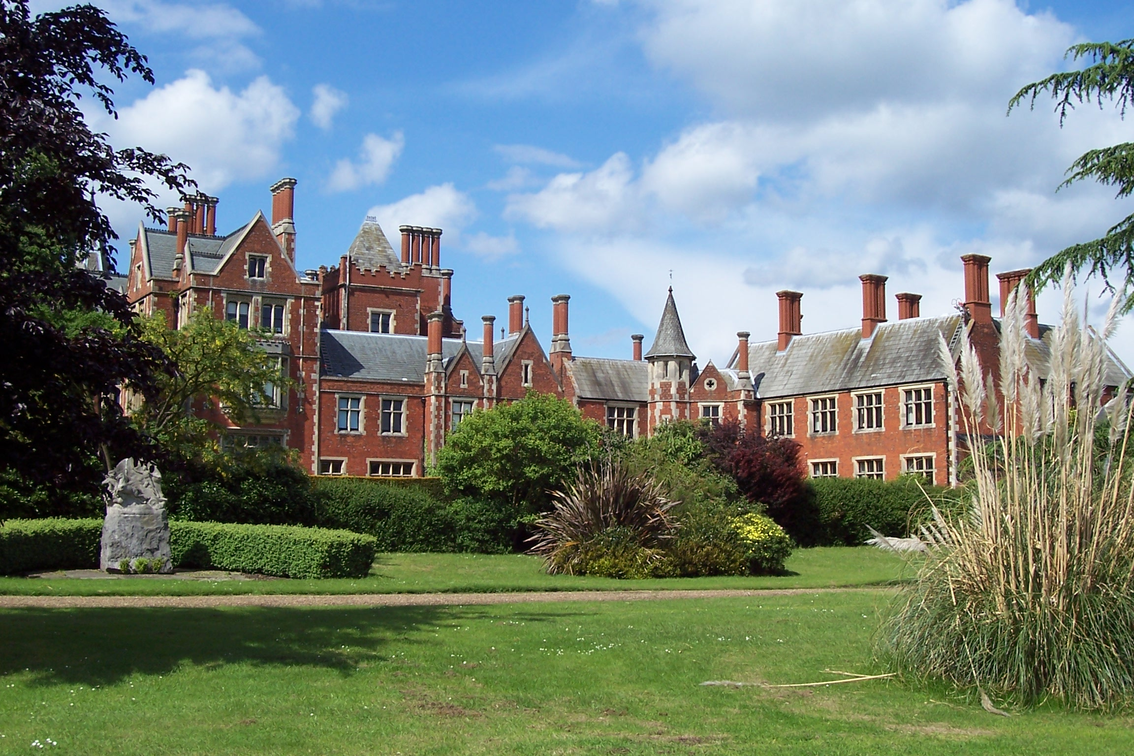 Taplow Court, Taplow, Buckinghamshire, UK - backside (west)